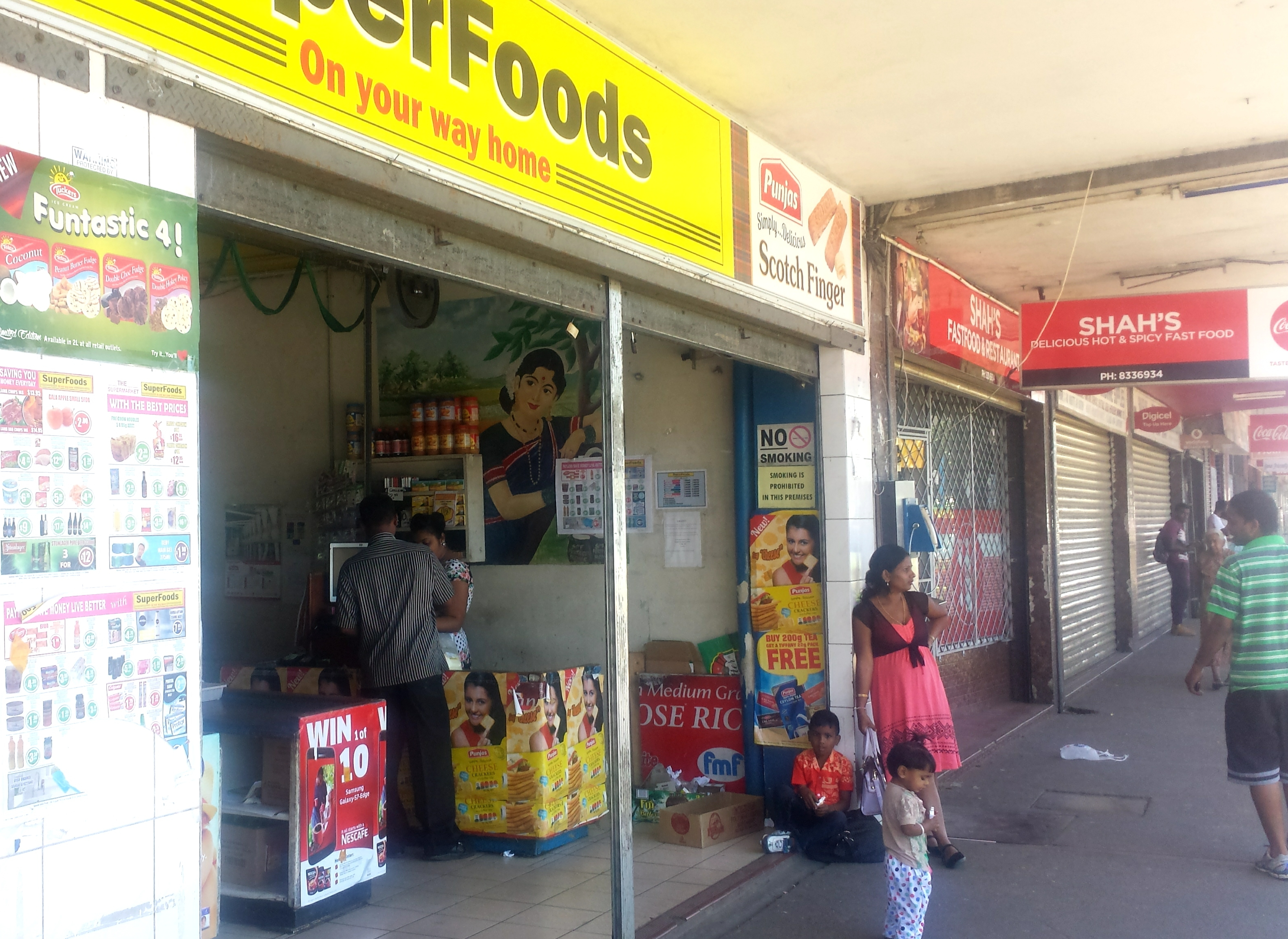 Shop in Lautoka on the island of Viti Levu, Fiji. August 2016.